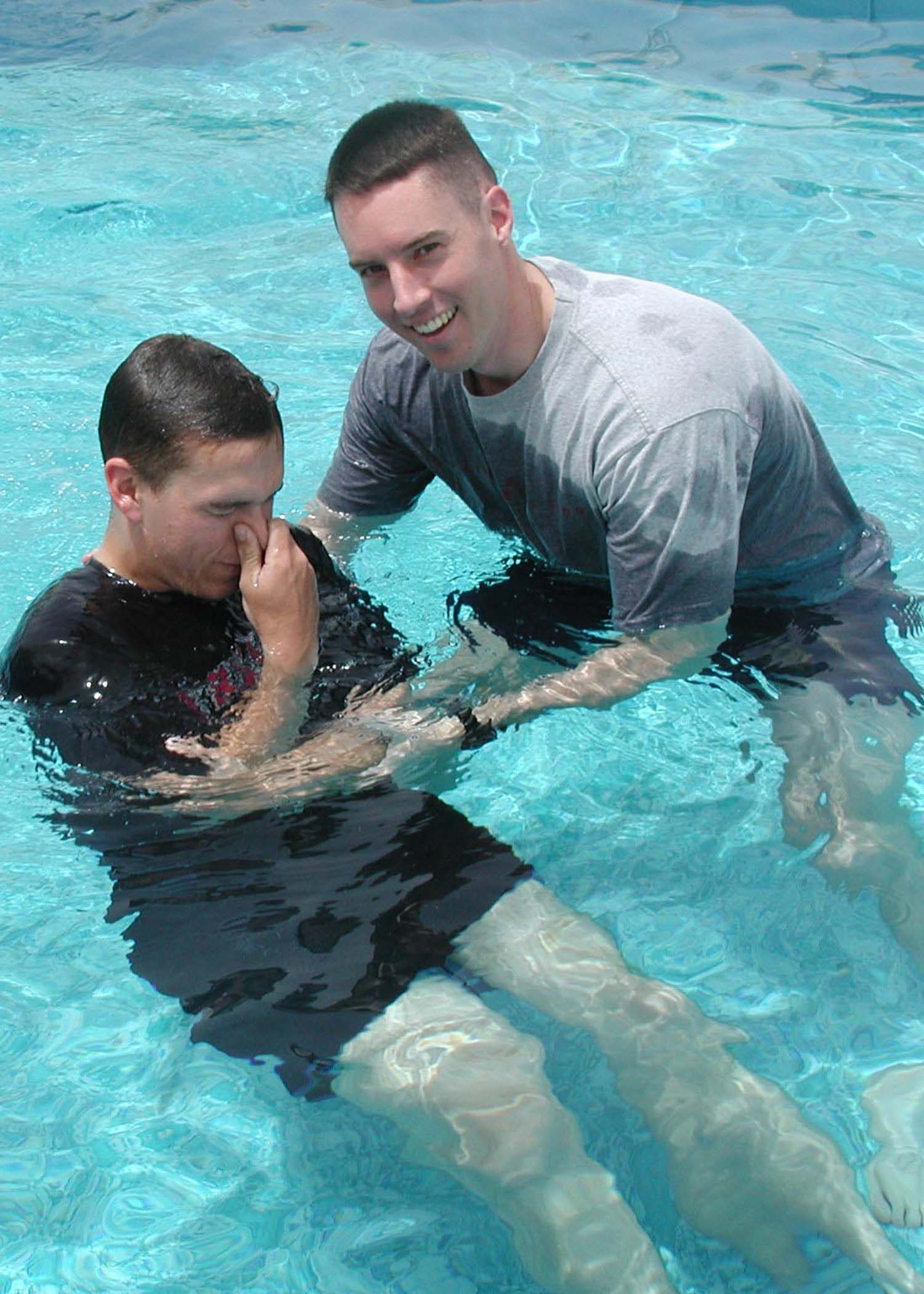 Aboard USS Boxer (LHD 4) in port Jebel Ali (May 3, 2003) -- Ship's chaplain Bellar performs a christian baptism on storekeeper Ryan P. Schoch in a Jebel Ali swimming pool. The Boxer is in port Jebel Ali, a city in Dubai, UAE. Boxer is deployed to the Arabian Gulf in support of operation Iraqi Freedom the multi-national coalition effort to liberate the Iraq's weapons of mass destruction, and end the regime of Saddam Hussein.